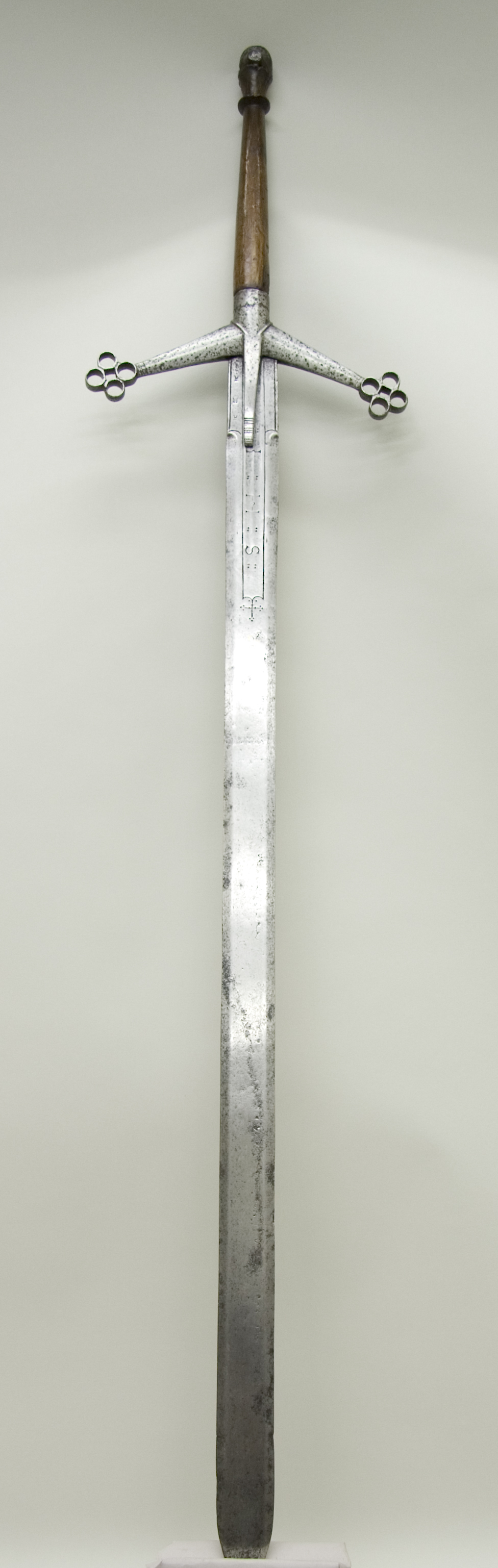 hilt, Scottish; blade, German; Claymore; Swords